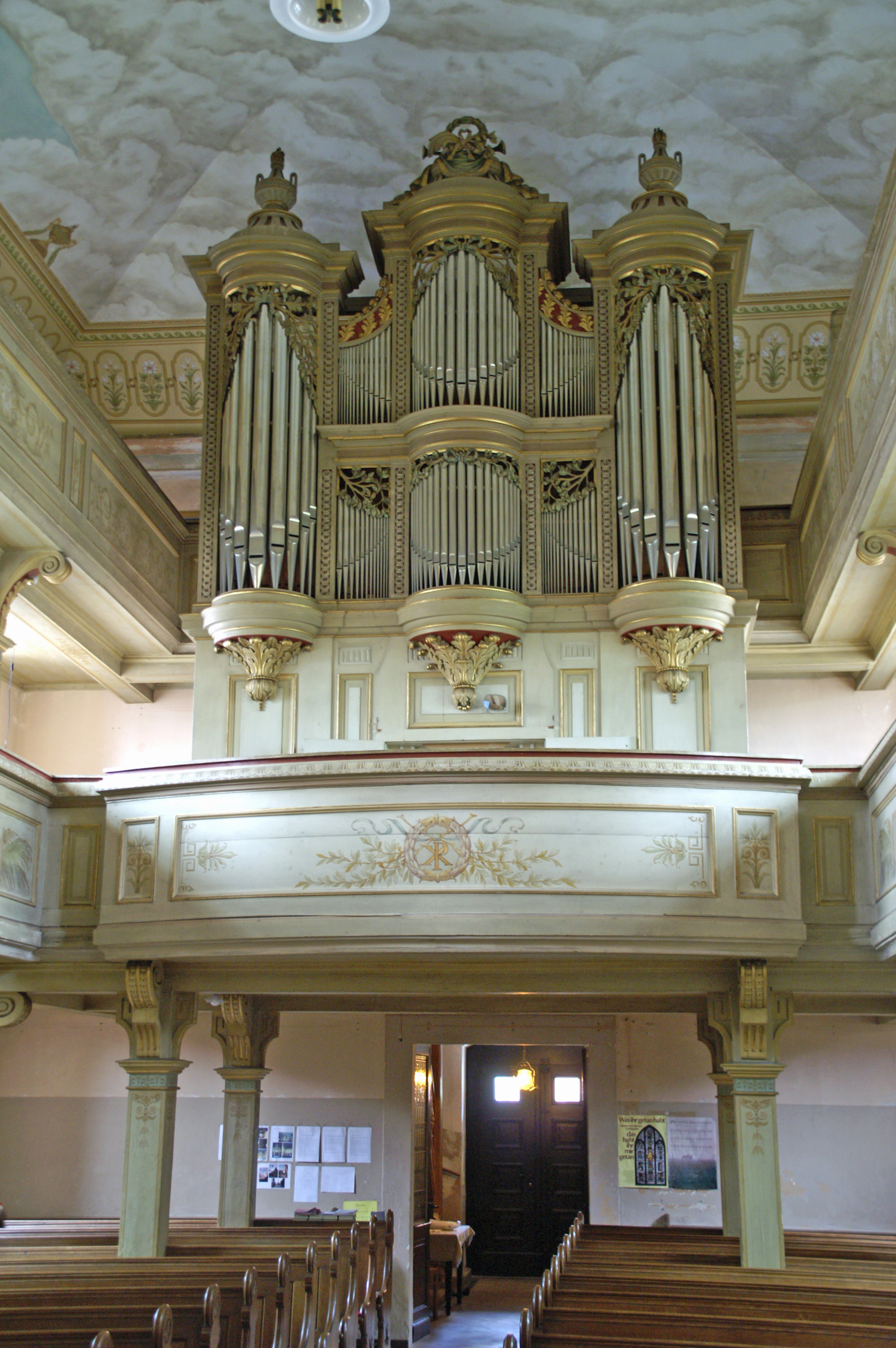 Organ in Zitzschen near Leipzig, built by Johann Gottlob and Christian Wilhelm Trampeli